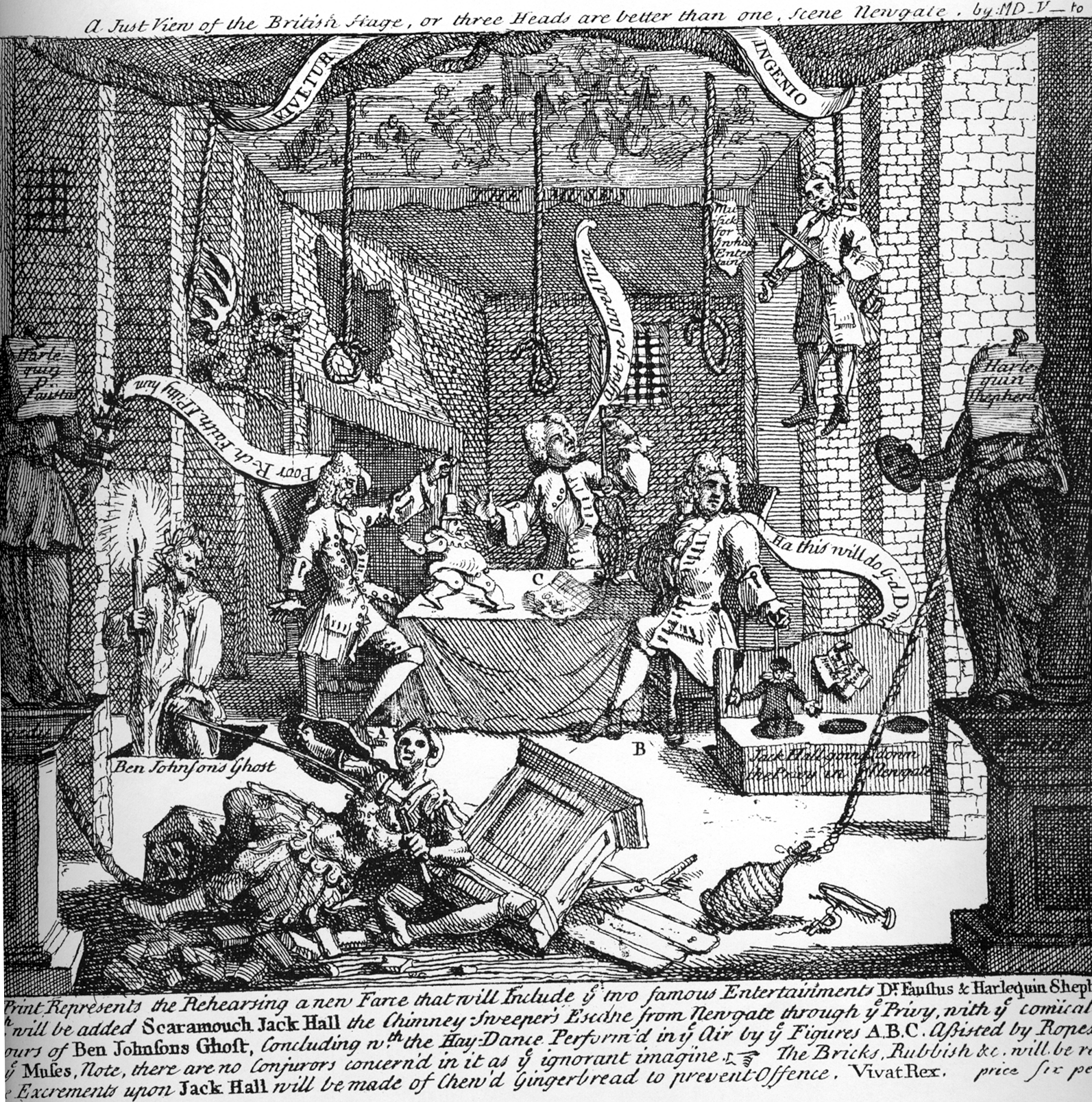 "A Just View of the English Stage" by William Hogarth. The print shows Wilkes, Colley Cibber, Booth rehearsing a new farce to out-compete John Rich (producer) at Drury Lane. N.b. the toilet articles scattered around, and the toilet paper reading "Hamlet" and "Way of Ye World."